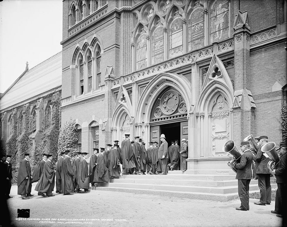 Seniors entering Sanders Theatre (part of Memorial Hall (Harvard University)) for Class Day exercises